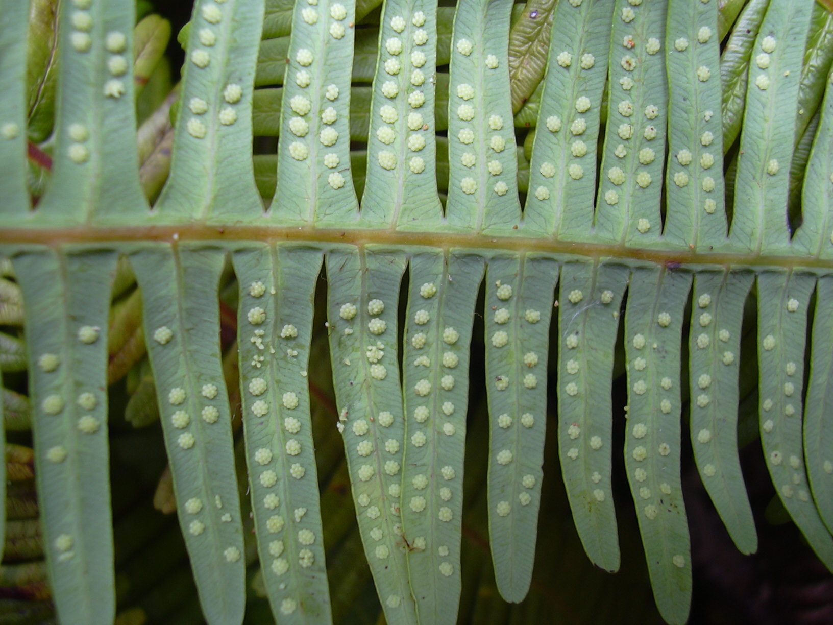 Dicranopteris linearis (spores). Location: Maui, Kopiliula